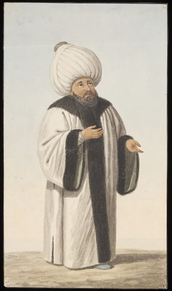 The Seyh-ül-Islâm, the senior Ottoman religious authority